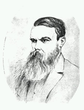 Picture of Henry Kingsley, the Victorian novelist